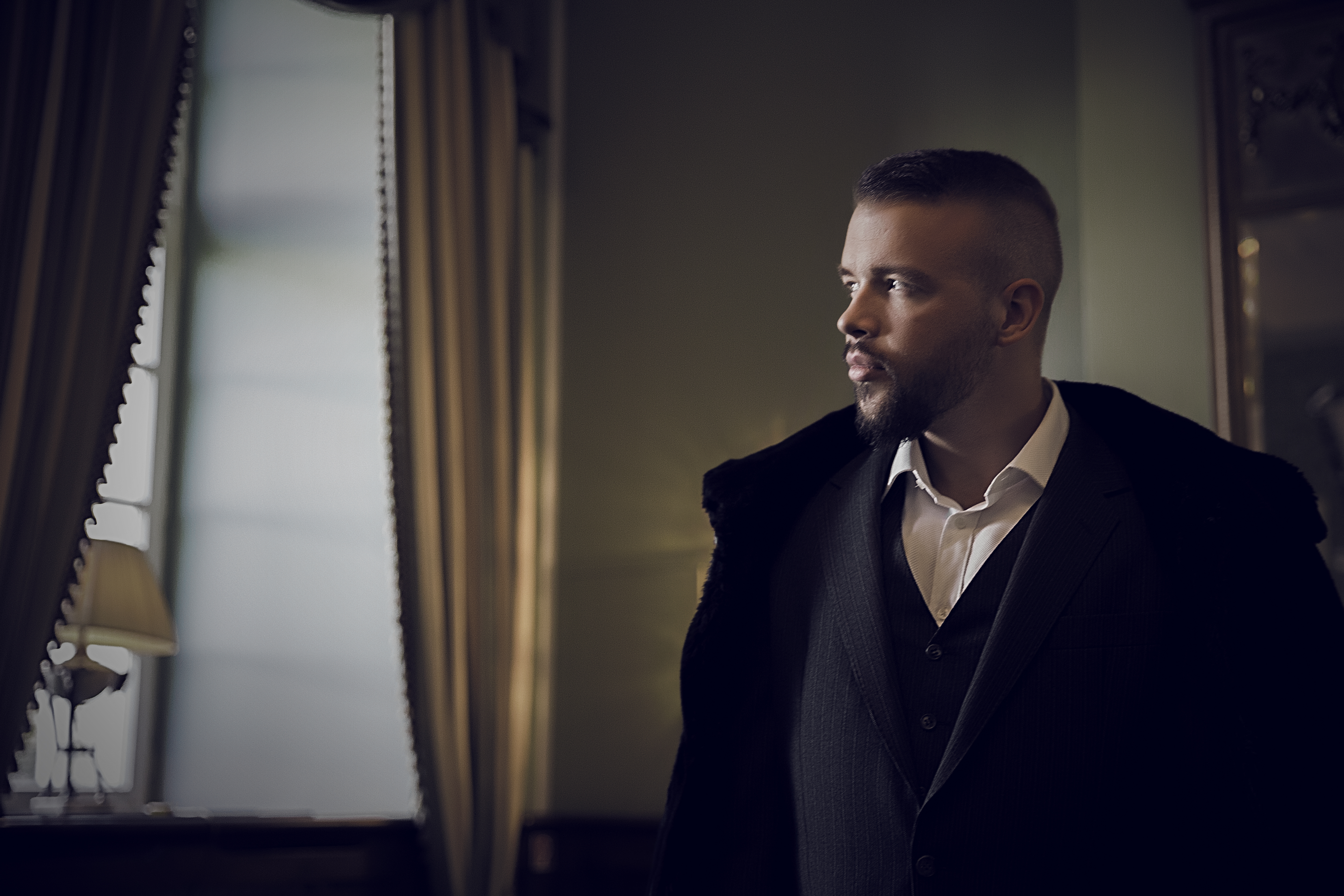 Pressefoto Kollegahs (2015)